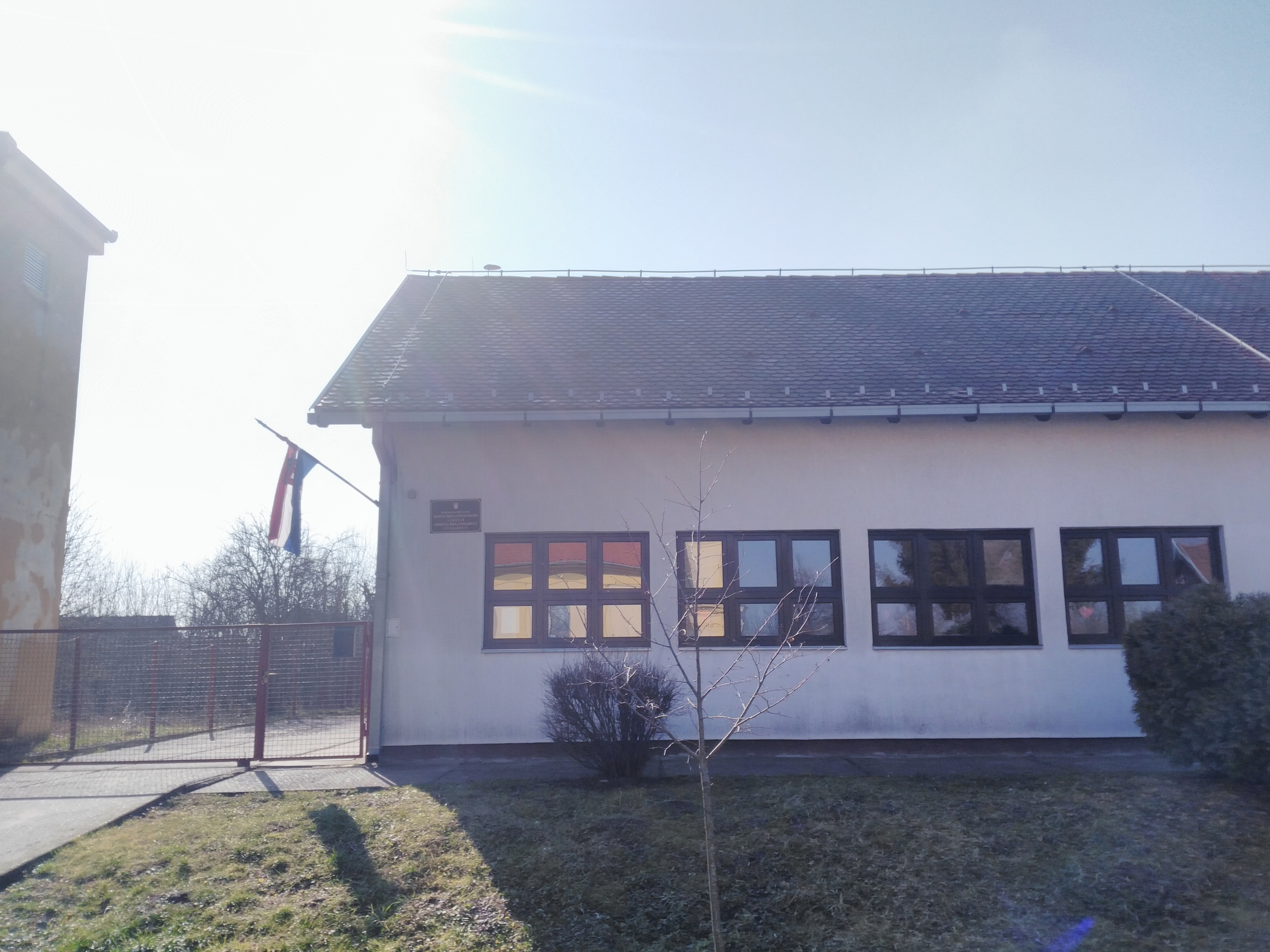 School in Svinjarevci.